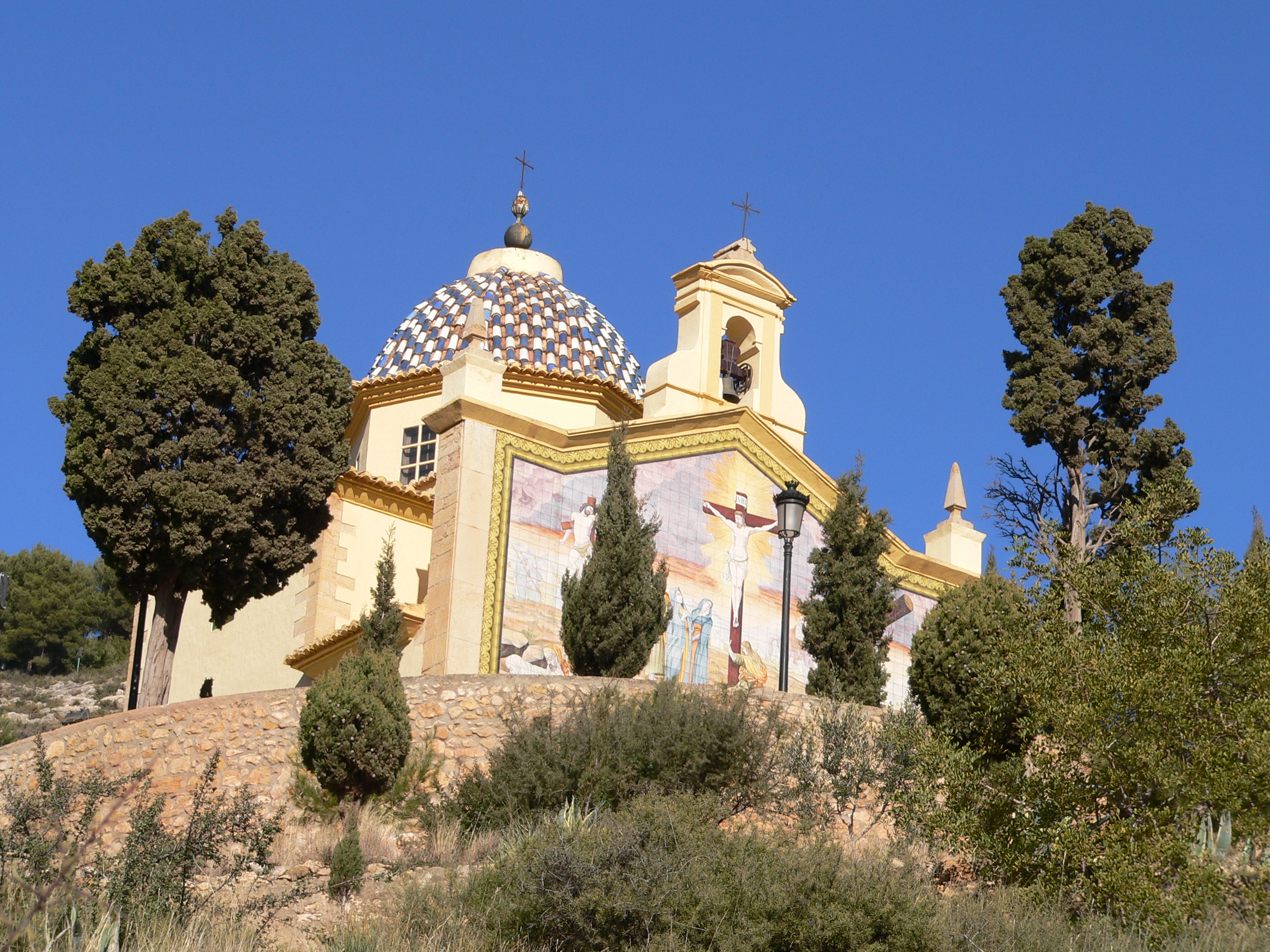 Hermitage Ermitorio del Calvario, Alcora